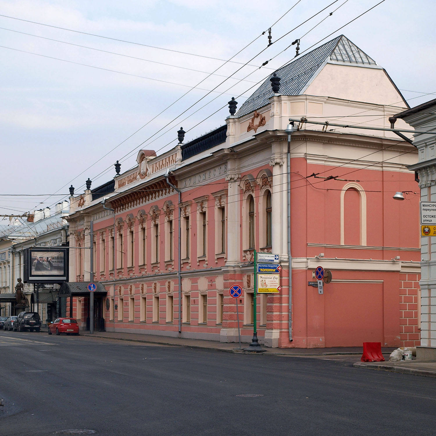 Prechistenka Street, Moscow.